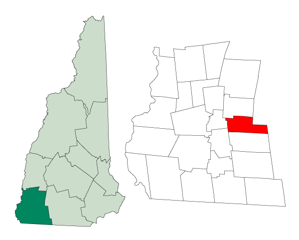 Map of a municipality in Cheshire County, New Hampshire